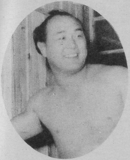 Kamikaze Shōicihi (Sekiwake).